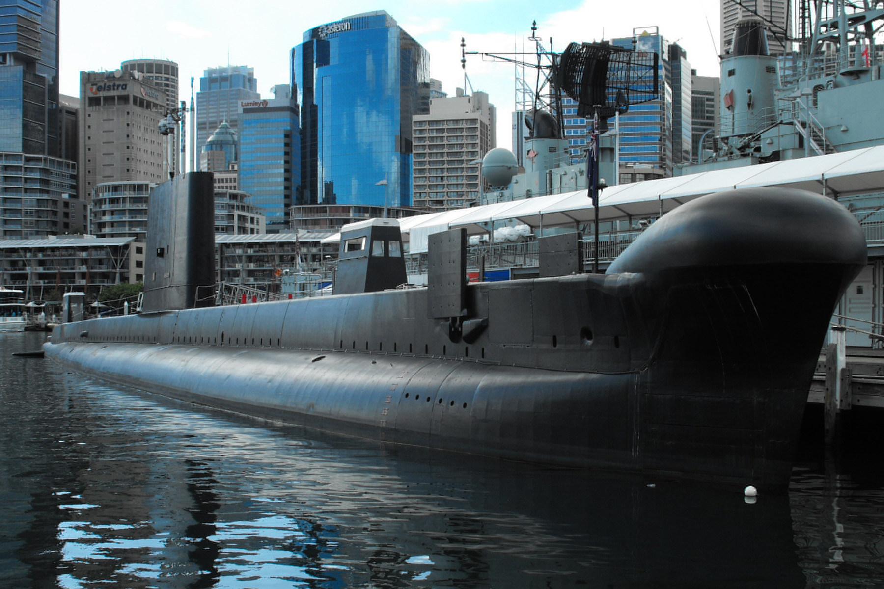 The Australian submarine HMAS Onslow on display at the Australian National Maritime Museum. The submarine has been temporarily moved from her normal position (tied up to the destroyer HMAS Vampire) and is positioned directly alongside the wharf.